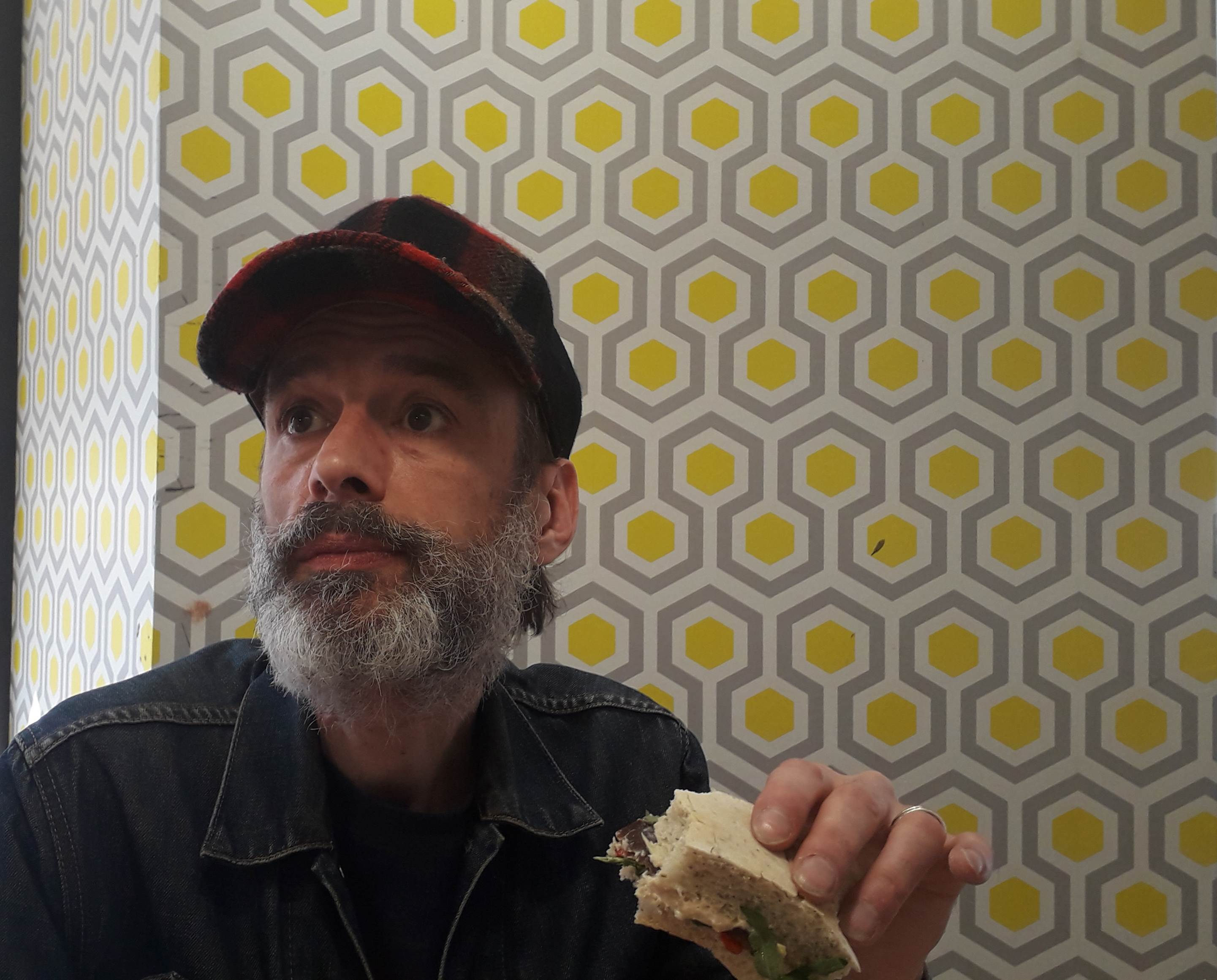 ERIK RUG